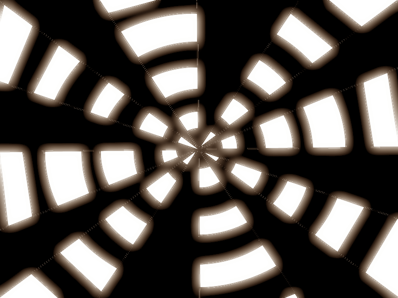 Illustration of Optical Illusion